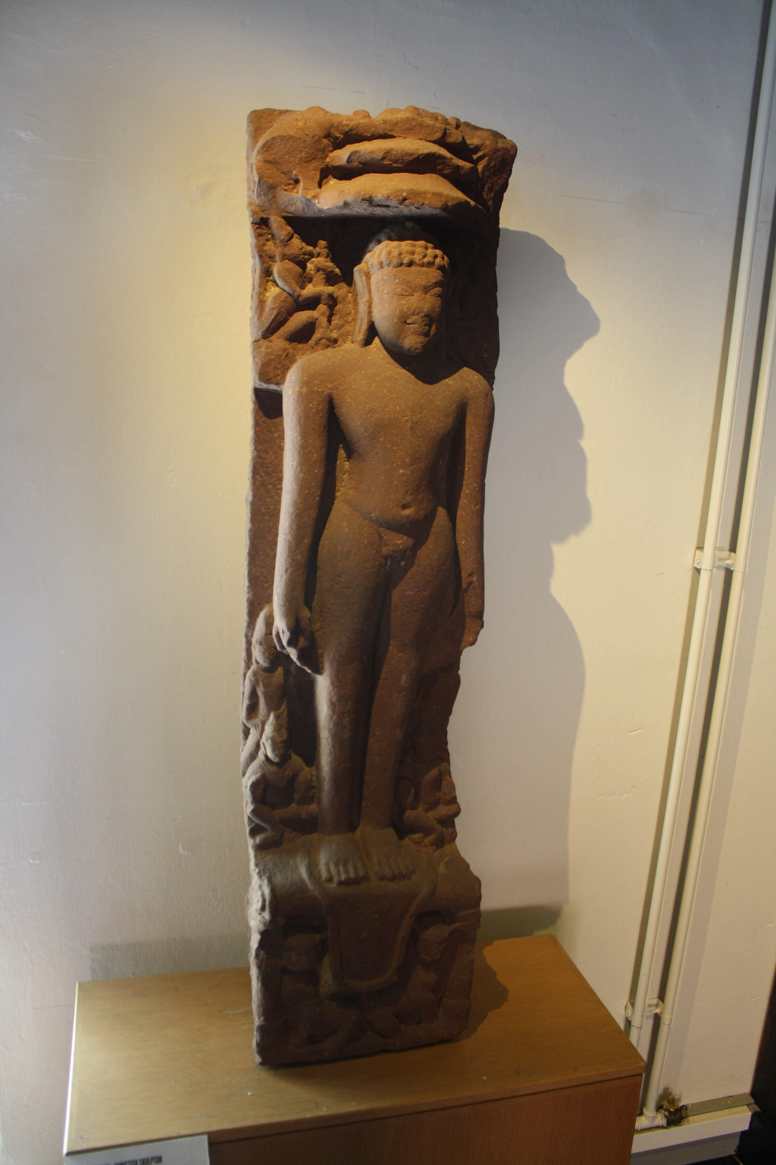 Jain sculpture. Red sandstone. India, Mathura, 8th century. Gift of Alva and Gunnar Myrdal. This is a photo of an artwork at the Museum of Far Eastern Antiquities in Sweden with the identifier: OM-1982-0043